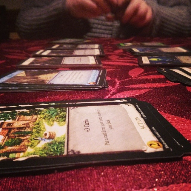 I lost hard at Dominion tonight. Playing Dominion with Dominion Intrigue. Dominion by Donald X Vaccarino.